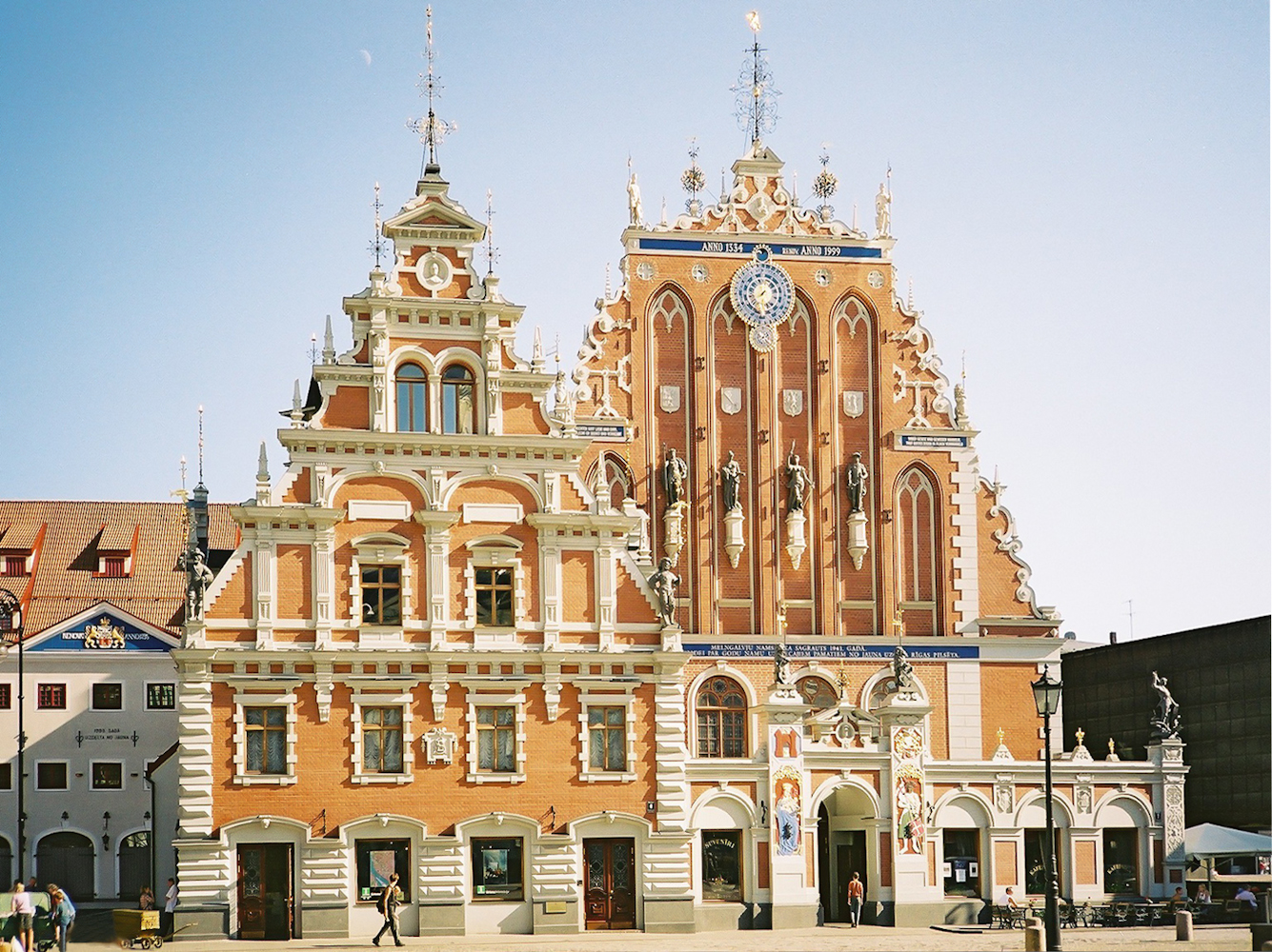 The House of Blackheads at Town Hall Square in Riga, Latvia.